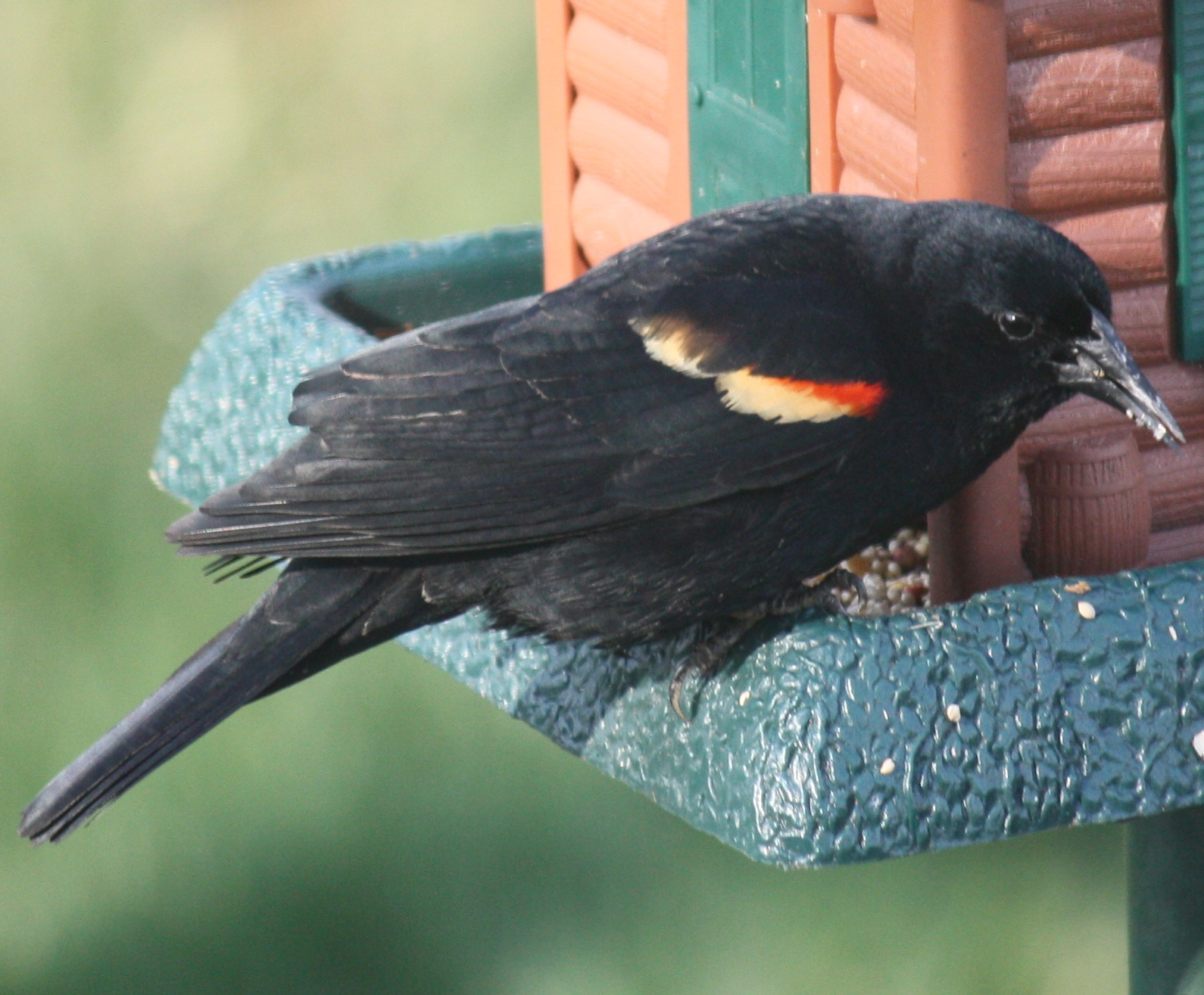 Red-winged Blackbird (Agelaius phoeniceus) With red epaulets hidden.. Photo taken in my backyard in March 2009